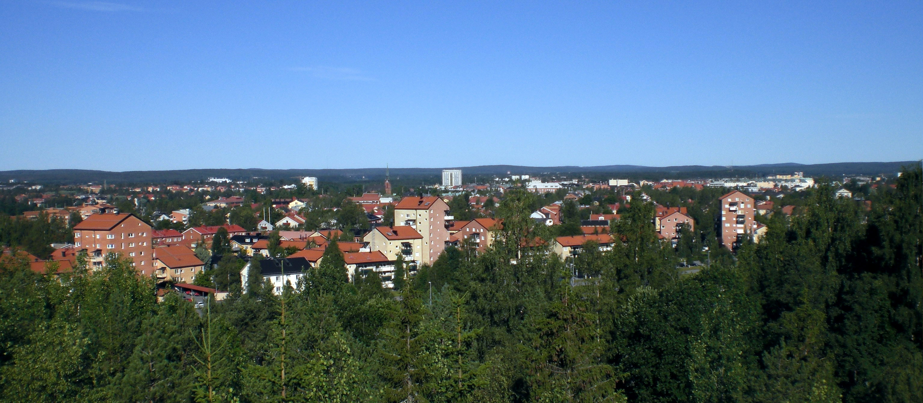 Umeå, seen from Hamrinsberget